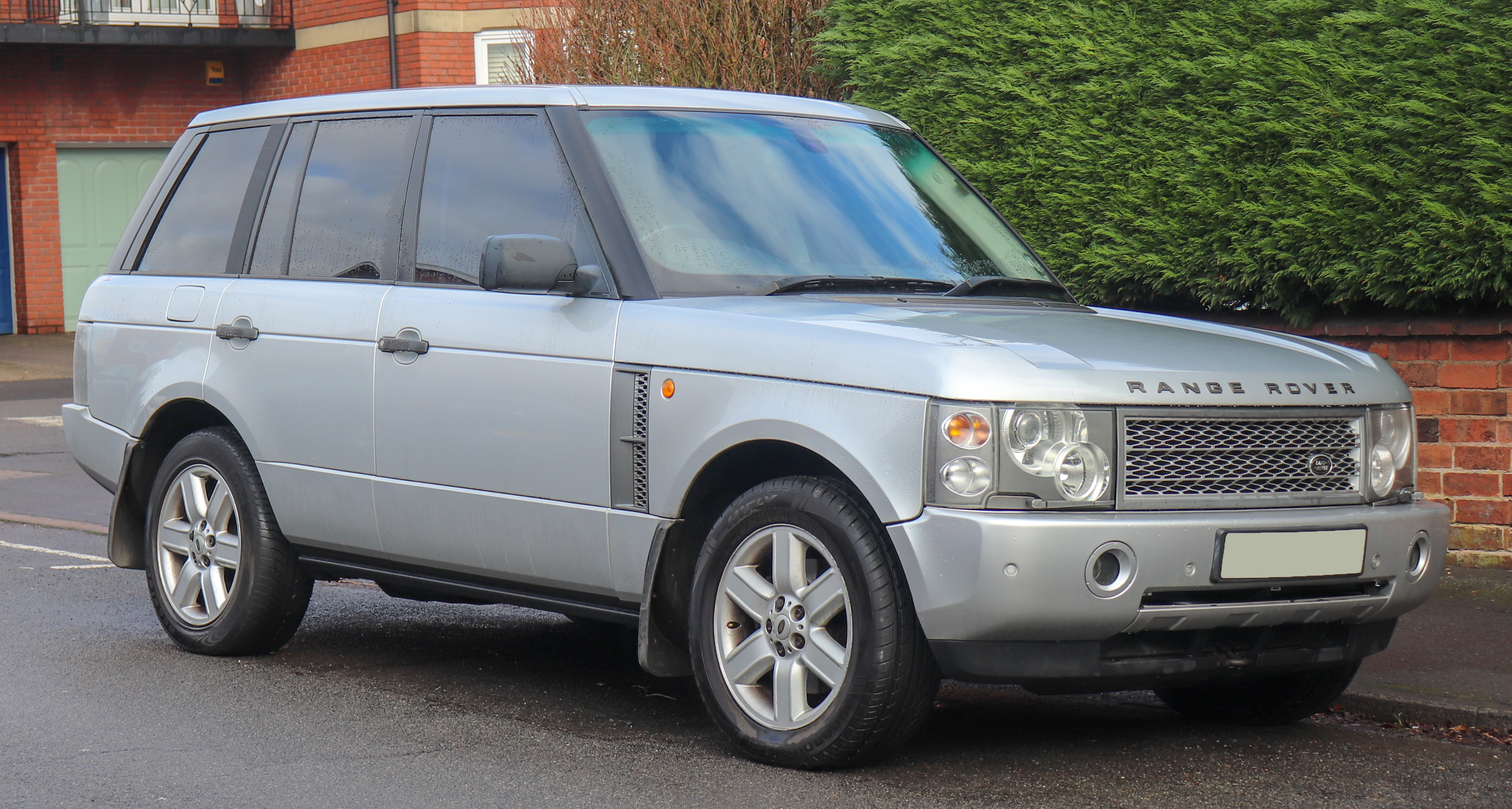 2002 Land Rover Range Rover Vogue V8 Automatic 4.4 Front Taken in Leamington Spa